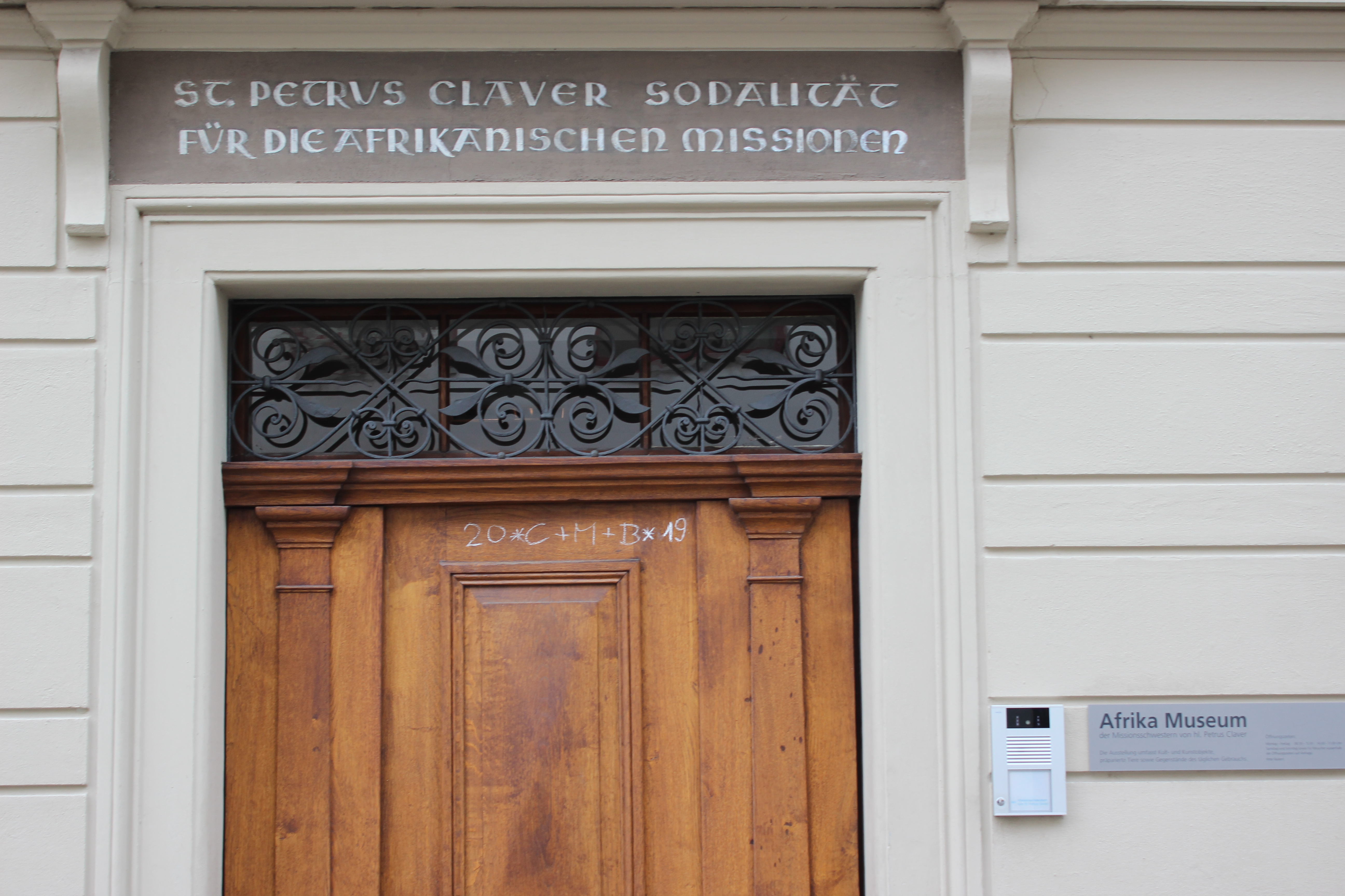 entry of Petrus Claver Sodalität Zug